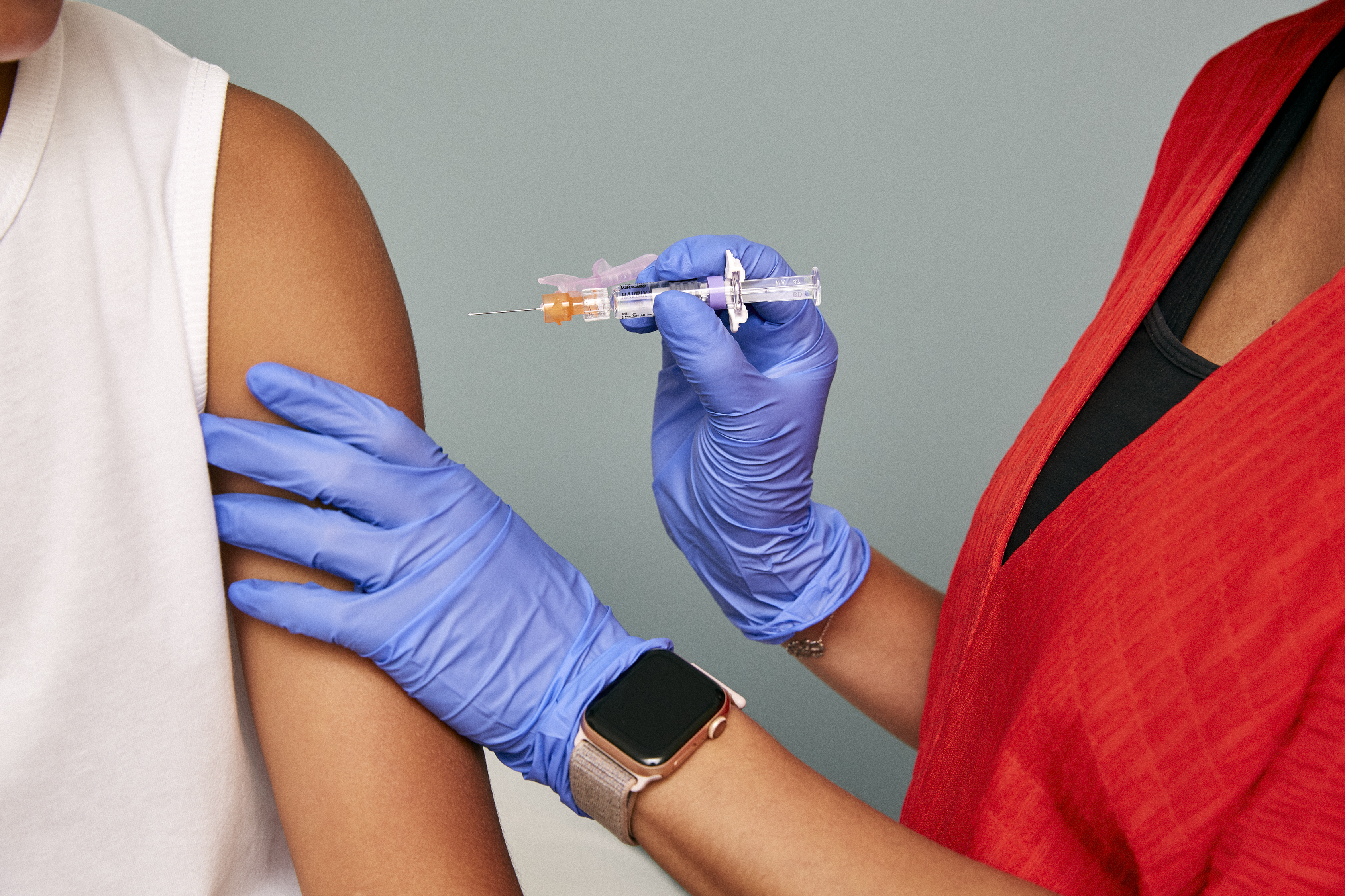 Photographer: Heather Hazzan; Wardrobe: Ronald Burton; Props: Campbell Pearson; Hair: Hide Suzuki; Makeup: Deanna Melluso at See Management. Shot on location at One Medical.